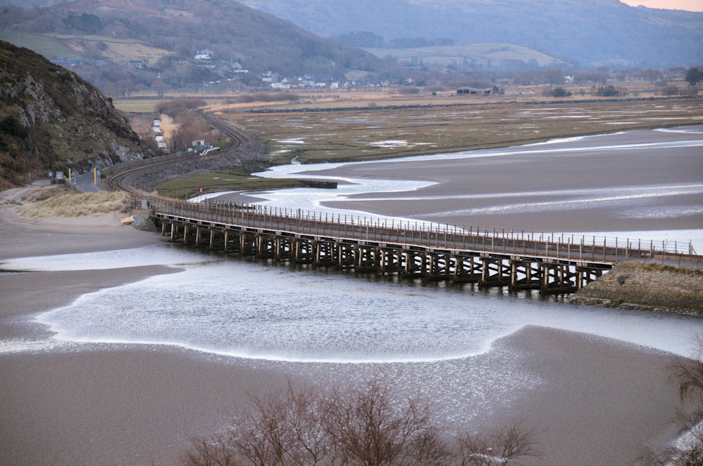 Pont Briwet is a Grade II listed wooden bridge which crosses the River Dwyryd, located near to Penrhyndeudraeth, Gwynedd in North Wales. Work has now started on building a replacement.